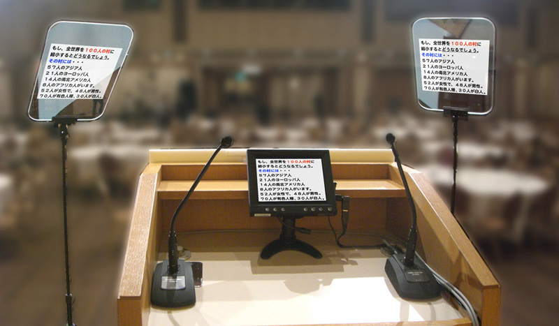 Teleprompter_Lectern-side